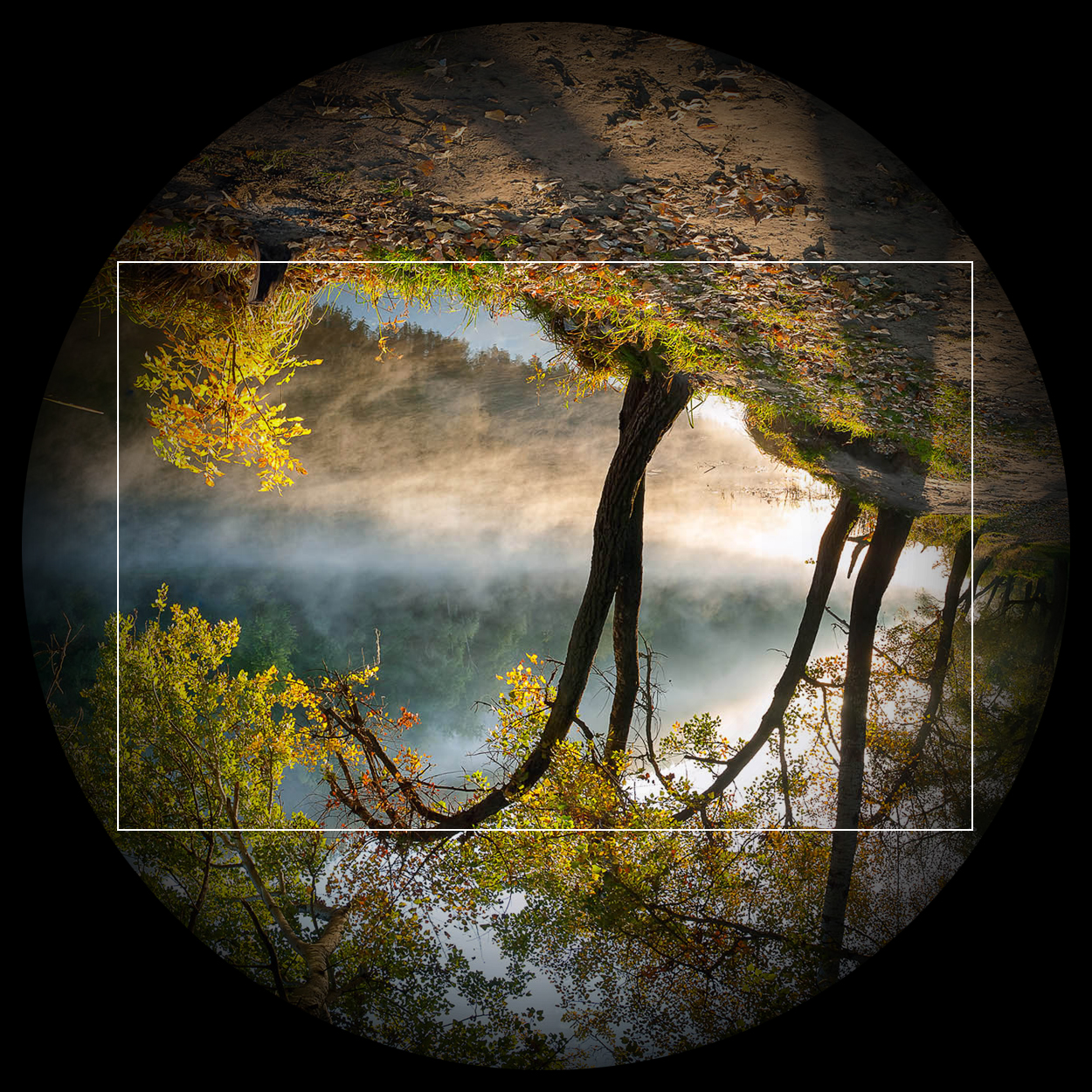 An Image circle formed inside a camera. The rectangle marks the position of the film or image sensor.